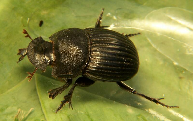 Dung beetle, Copris fricator, minor male